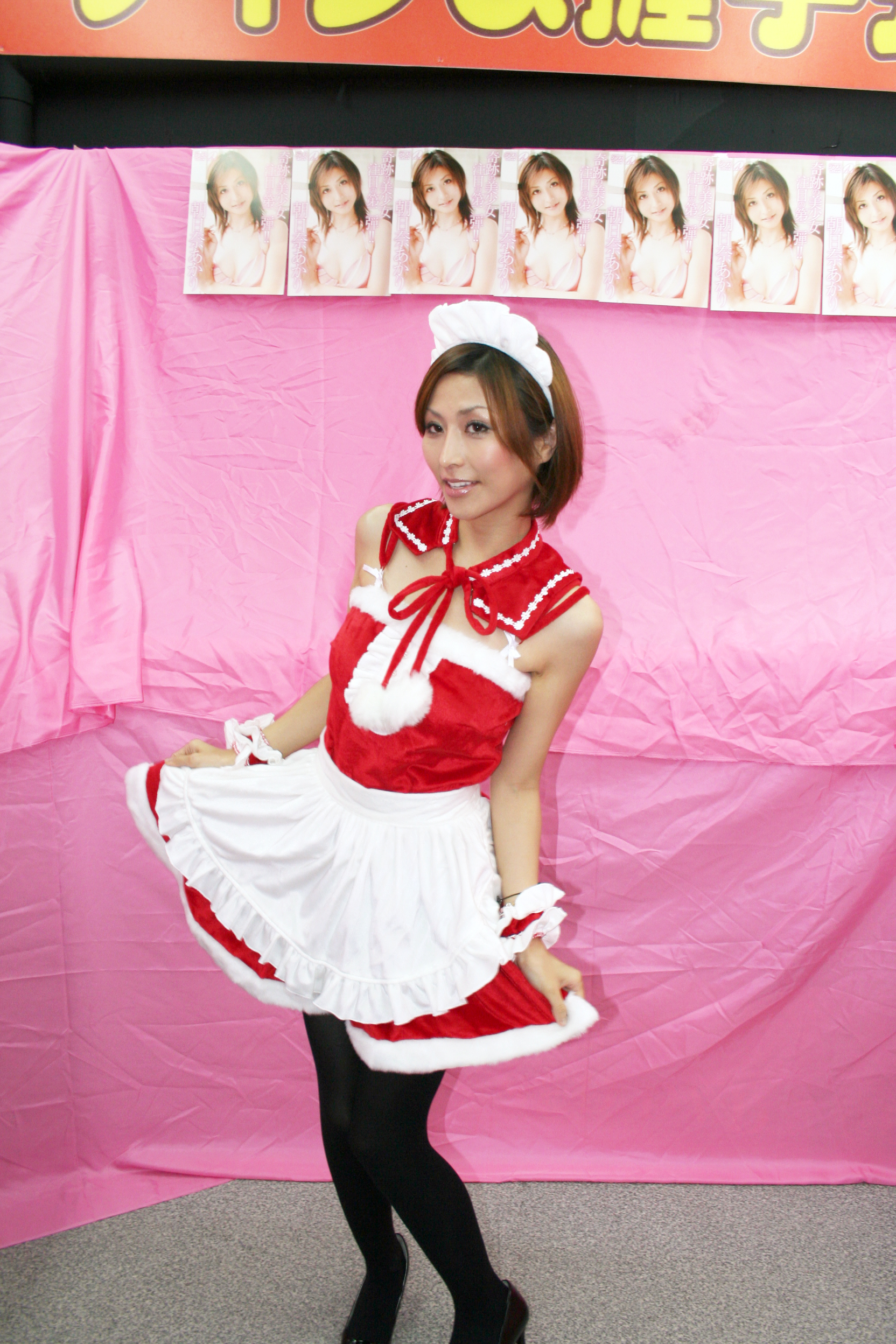 AV actress Akari Asahina at an autograph-signing event in Kobe, Hyogo, Japan.